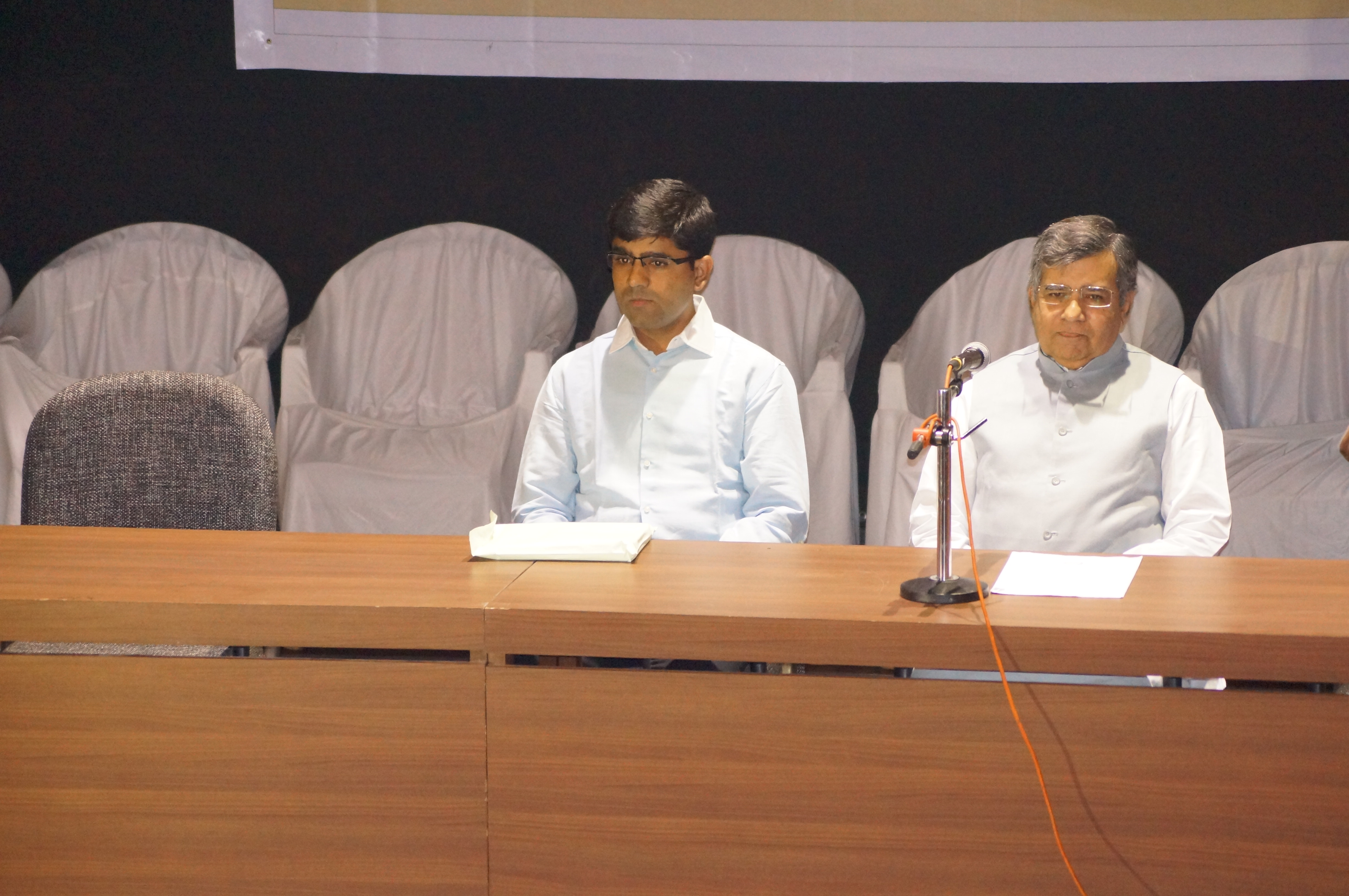 The one and only Gujarati writer of science, Shree Nagendra Vijay with his son Harshal Pushkarna at the launching of Sarthak Prakashan, Ahmedabad, Gujarat, Inidia. હર્ષલ પુષ્કર્ણા અને શ્રી નગેન્દ્ર વિજય